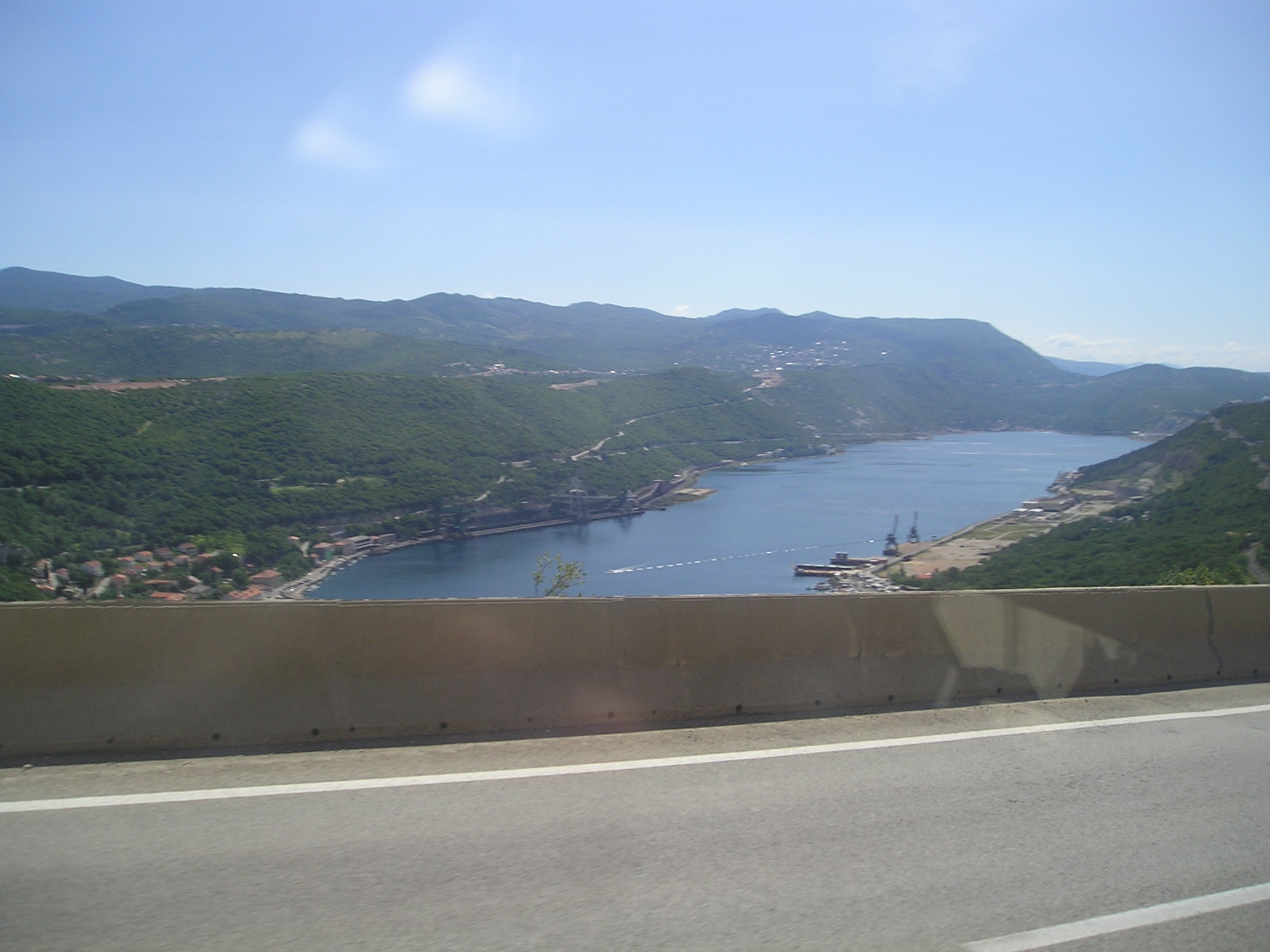 Bay of Bakar